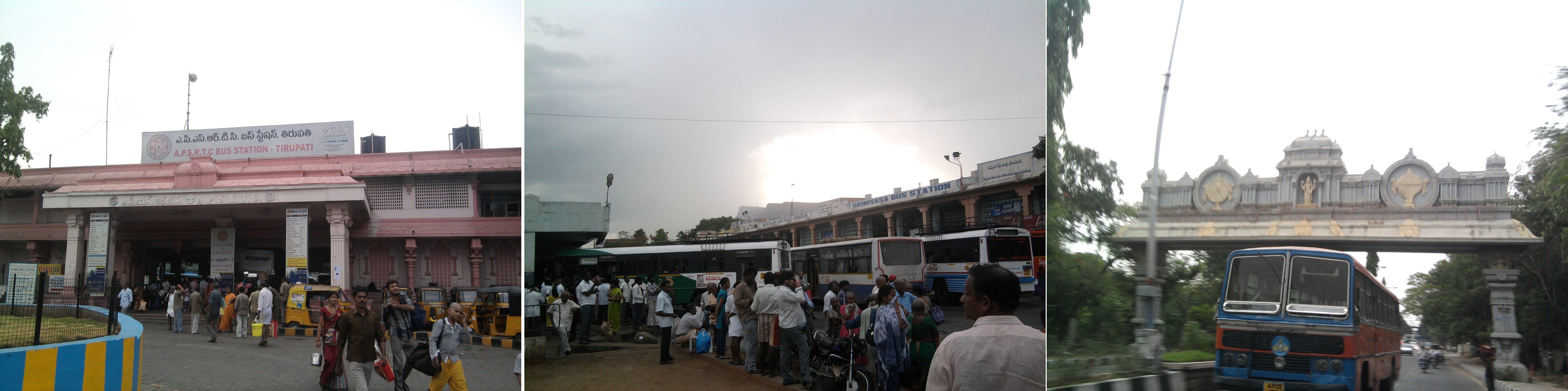 A.P.S.R.T.C Bus Station (Srinivasa Bus Station) - Tirupati and Tirupati Road.